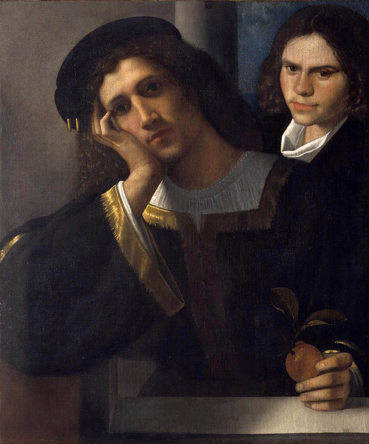 Double portrait of unknown persons